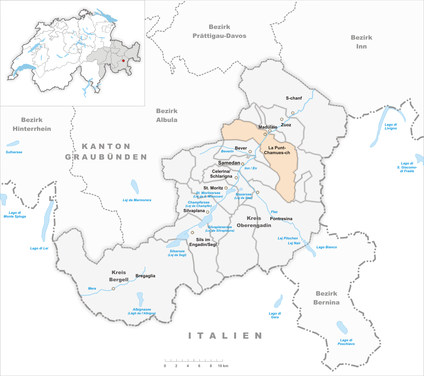 Municipality La Punt-Chamues-ch